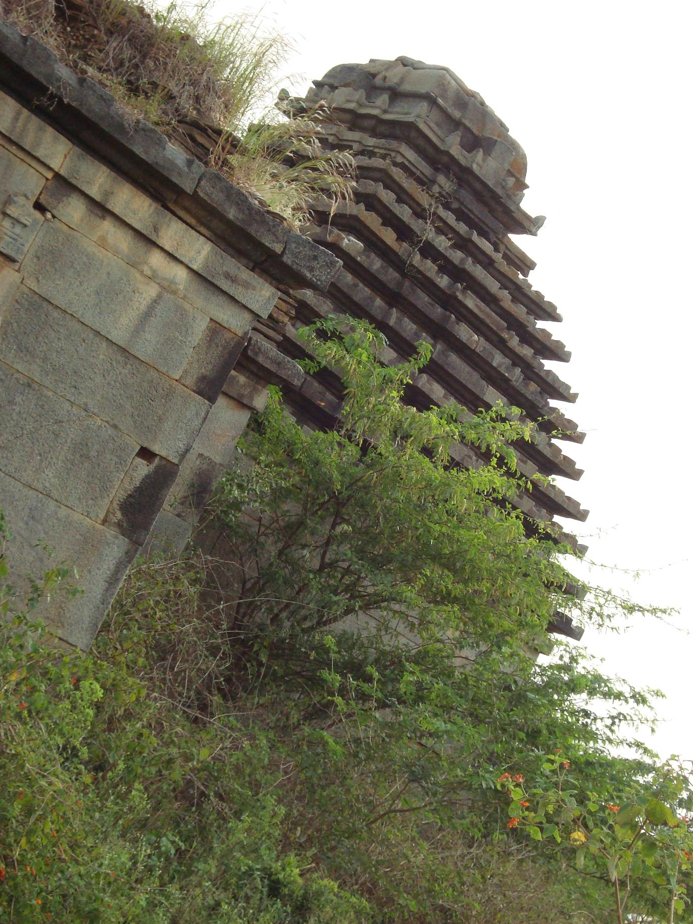 Narasimha temple Narasapura near Chaudayyadanapura, Haveri District, North Karnataka, India Source and Author : Manjunath Doddamani, Gajendragad / Hubli, Karnataka(India)